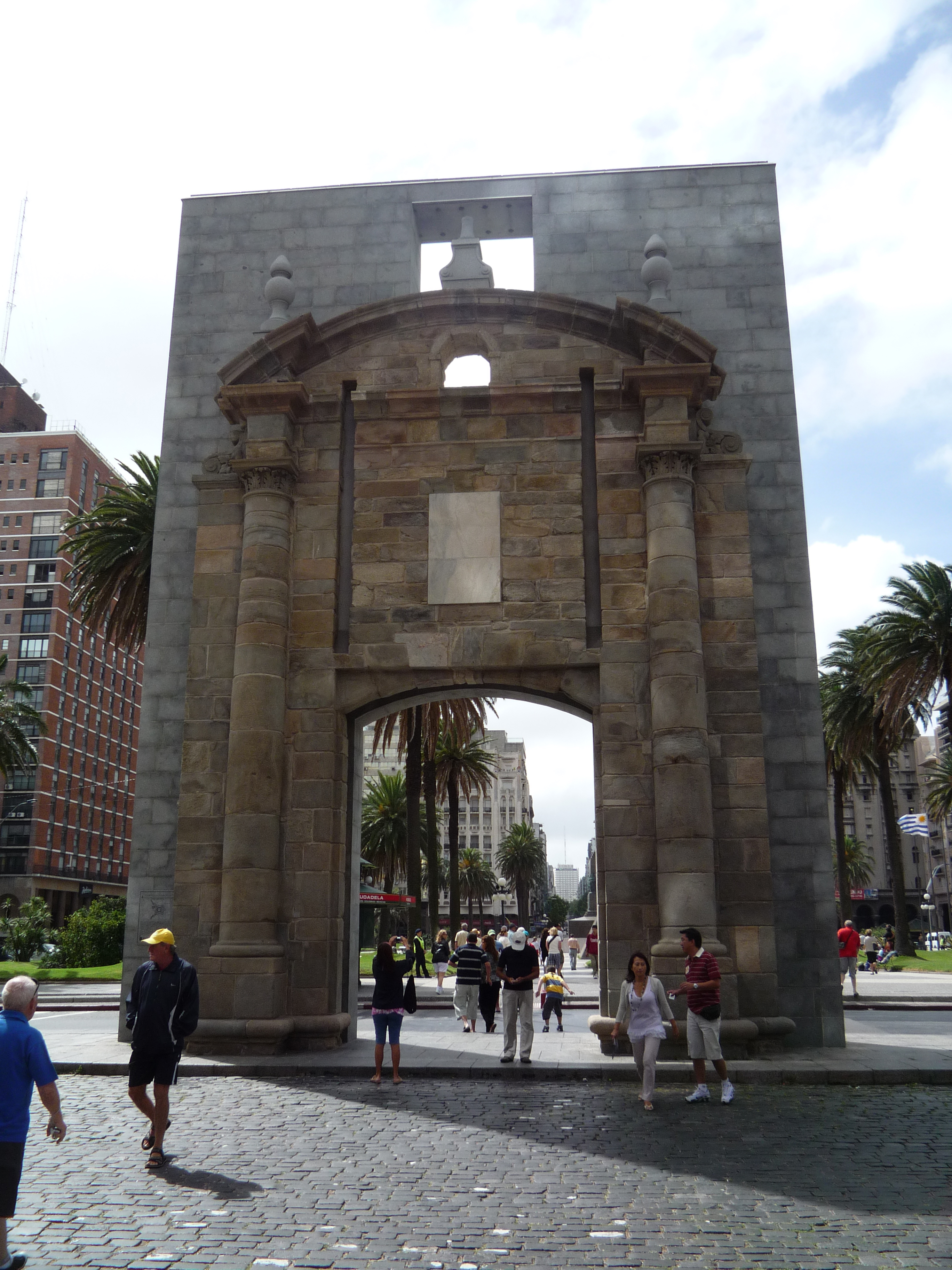 Gate of the old fortress of Montevideo, Uruguay